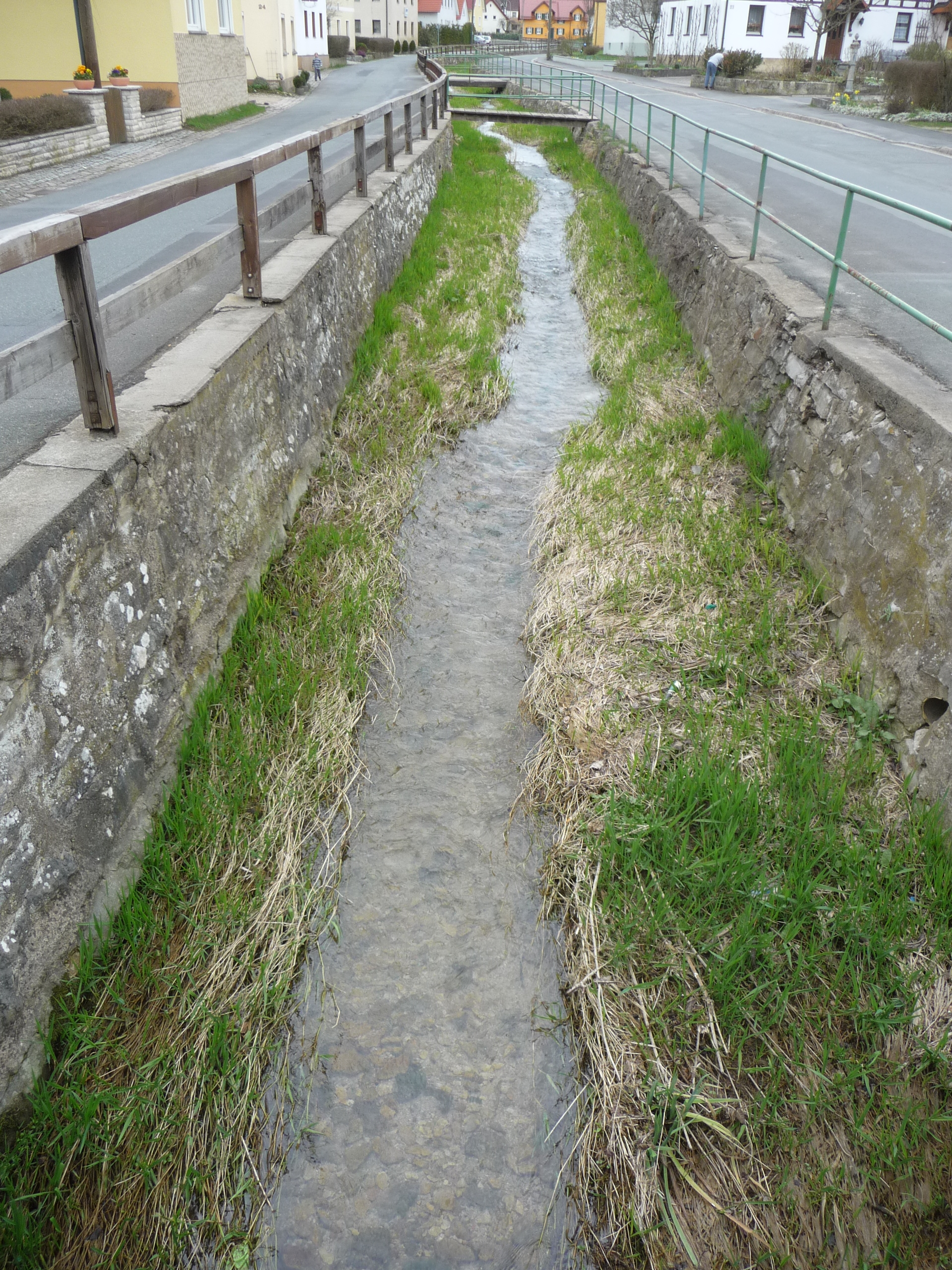 Stackendorf